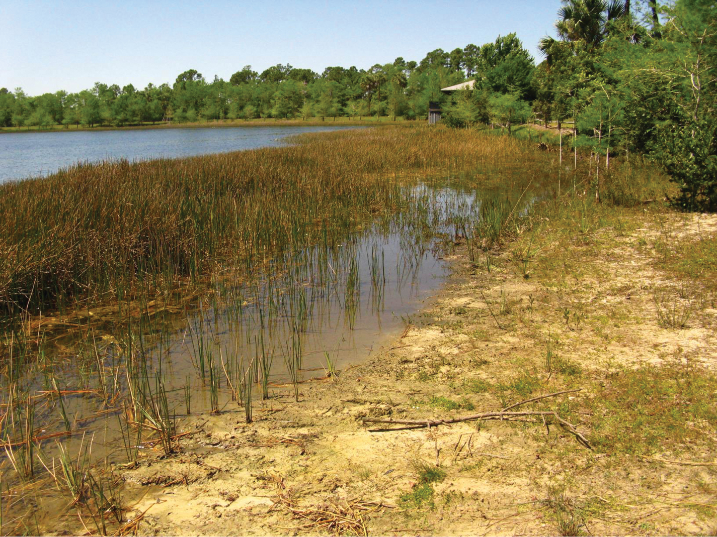 Habitat of Semiardistomis viridis (Say) at Grassy Waters Preserve, West Palm Beach, Florida, USA